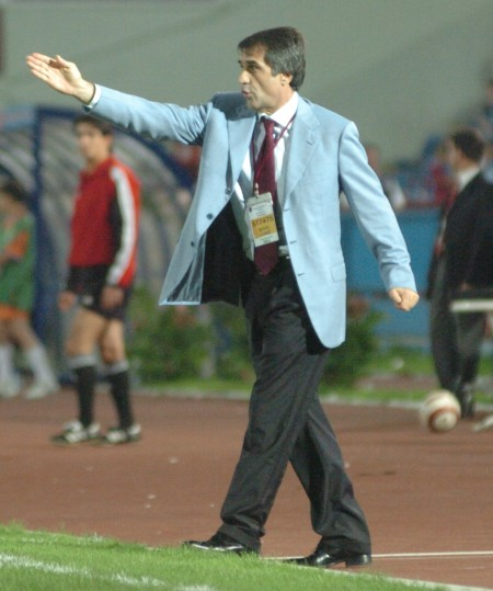 Turkish football coach and former football player Şenol Güneş